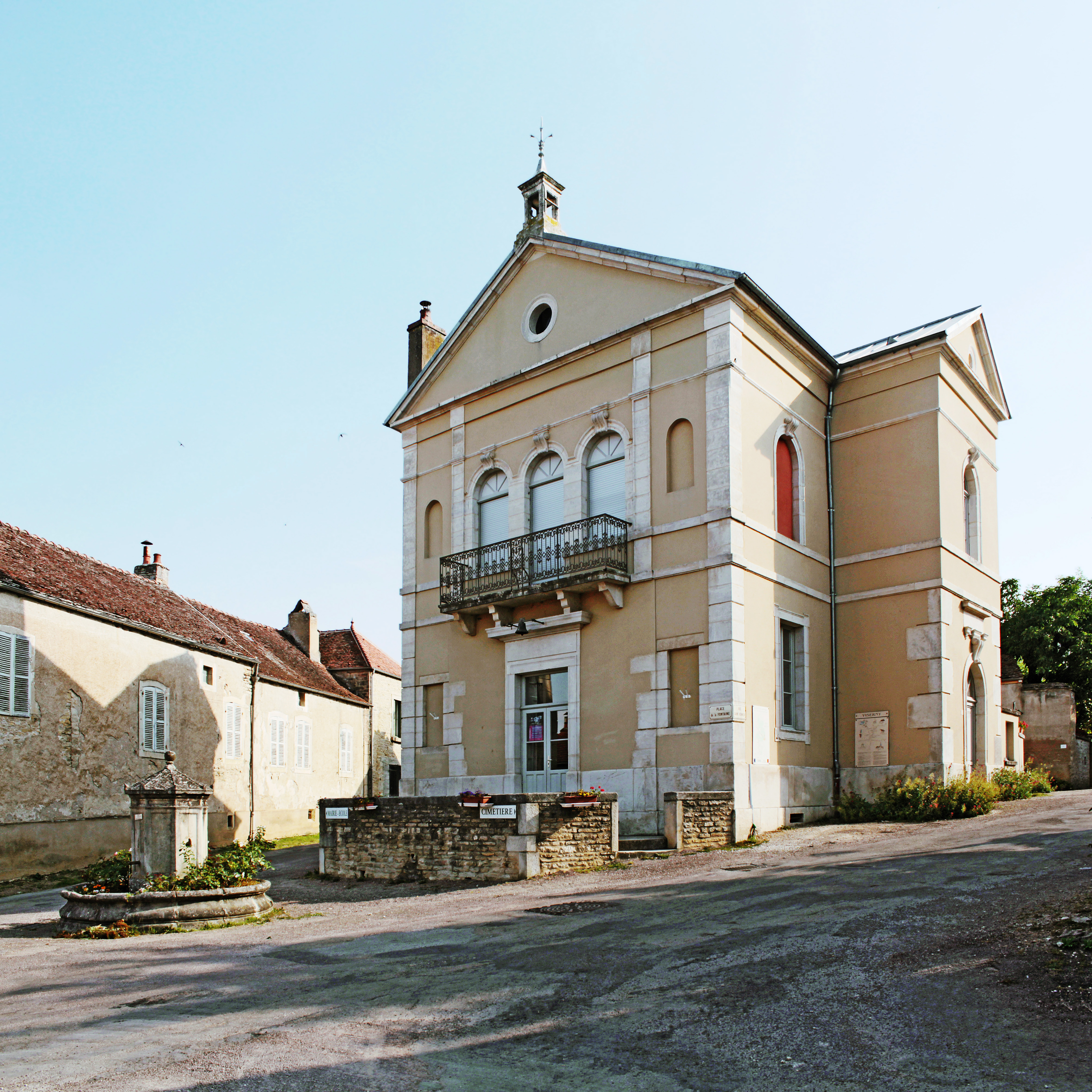 Viserny old town hall and school